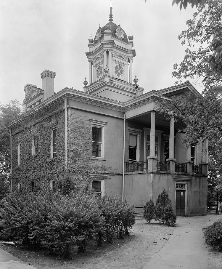 Burke County Courthouse (North Carolina) This image is available from the United States Library of Congress's Prints and Photographs division under the digital ID csas.02242.This tag does not indicate the copyright status of the attached work. A normal copyright tag is still required. See Commons:Licensing for more information. Rights Advisory: No known restrictions on publication. This work is in the public domain in the United States because it is a work prepared by an officer or employee of the United States Government as part of that person’s official duties under the terms of Title 17, Chapter 1, Section 105 of the US Code. Note: This only applies to original works of the Federal Government and not to the work of any individual U.S. state, territory, commonwealth, county, municipality, or any other subdivision. This template also does not apply to postage stamp designs published by the United States Postal Service since 1978. (See § 313.6(C)(1) of Compendium of U.S. Copyright Office Practices). It also does not apply to certain US coins; see The US Mint Terms of Use. This file has been identified as being free of known restrictions under copyright law, including all related and neighboring rights. Object location35° 44′ 44″ N, 81° 41′ 07″ W